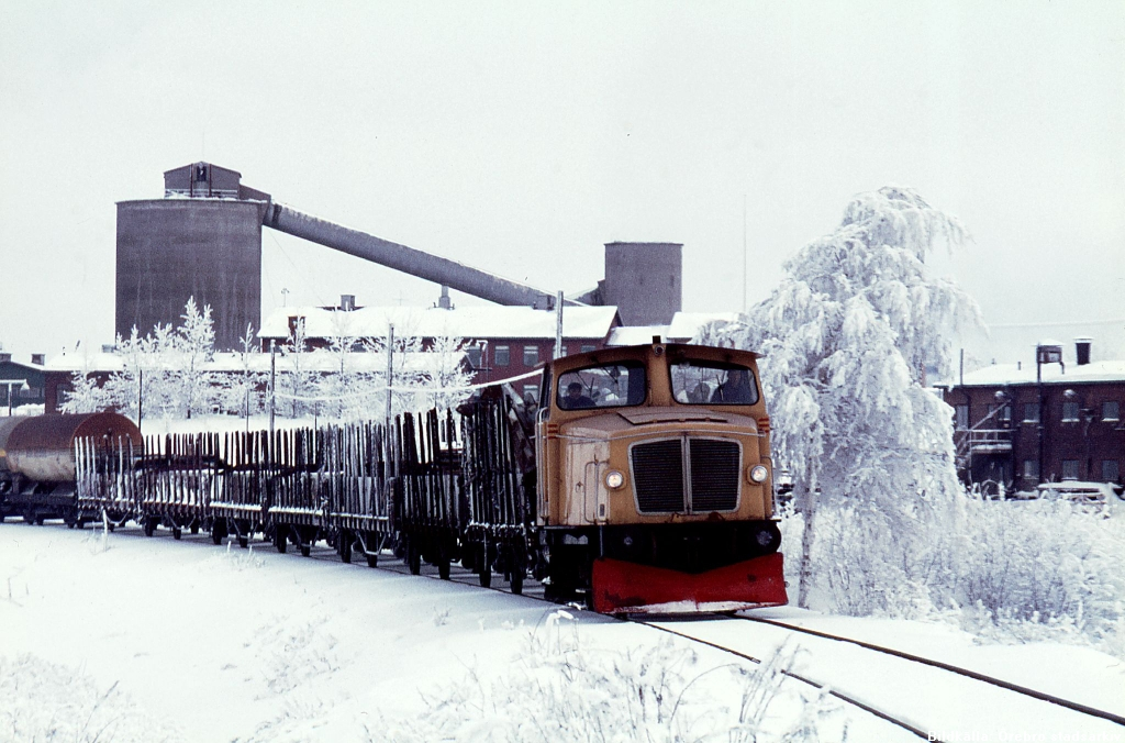 The railway between Kumla and Yxhult, Sweden